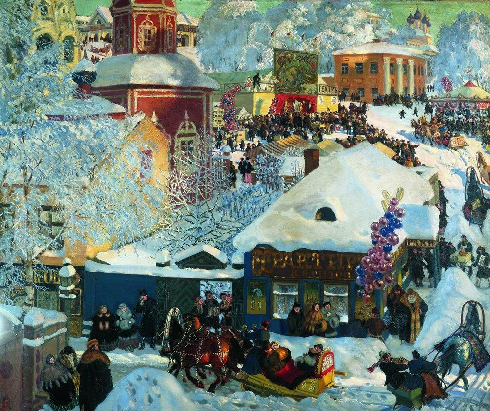 Winter. Shrovetide festivities